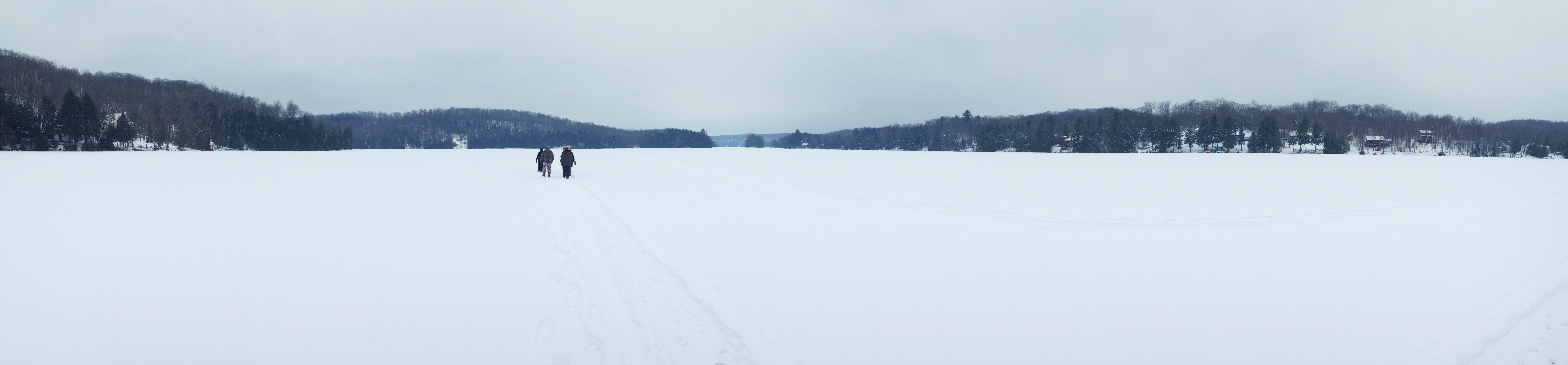 A panorama of Salerno Lake in December 2012 with cottagers hiking on the ice.